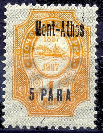 Postage stamps of Russian empire, P.O. in Levant. Issue for Mount Athos, 5 para on 1 Коп.